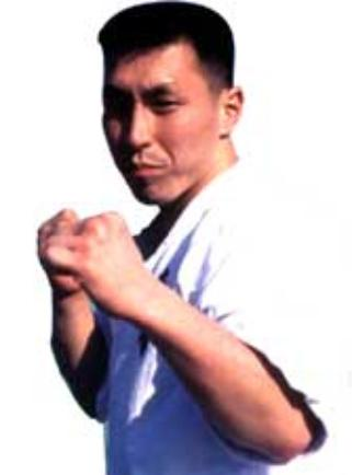 Kazumi in the 90s